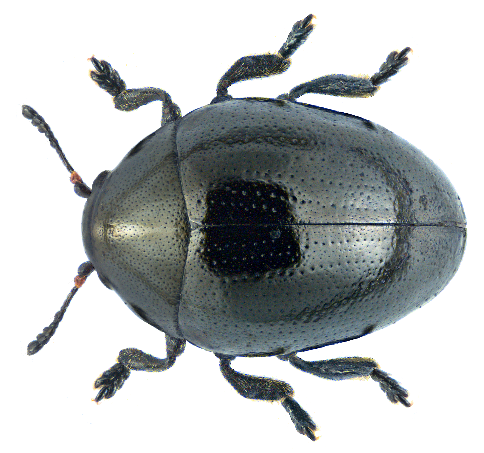 Family: Chrysomelidae Size: 2,5 mm (2,0 to 2.8 mm) Origin: Europe Ecology: lives on Aegopodium podagaria Location: Austria, Leitha Mountains, Donnerskirchen leg.det. U.Schmidt, 3.VI.1975 Photo: U.Schmidt, 2015